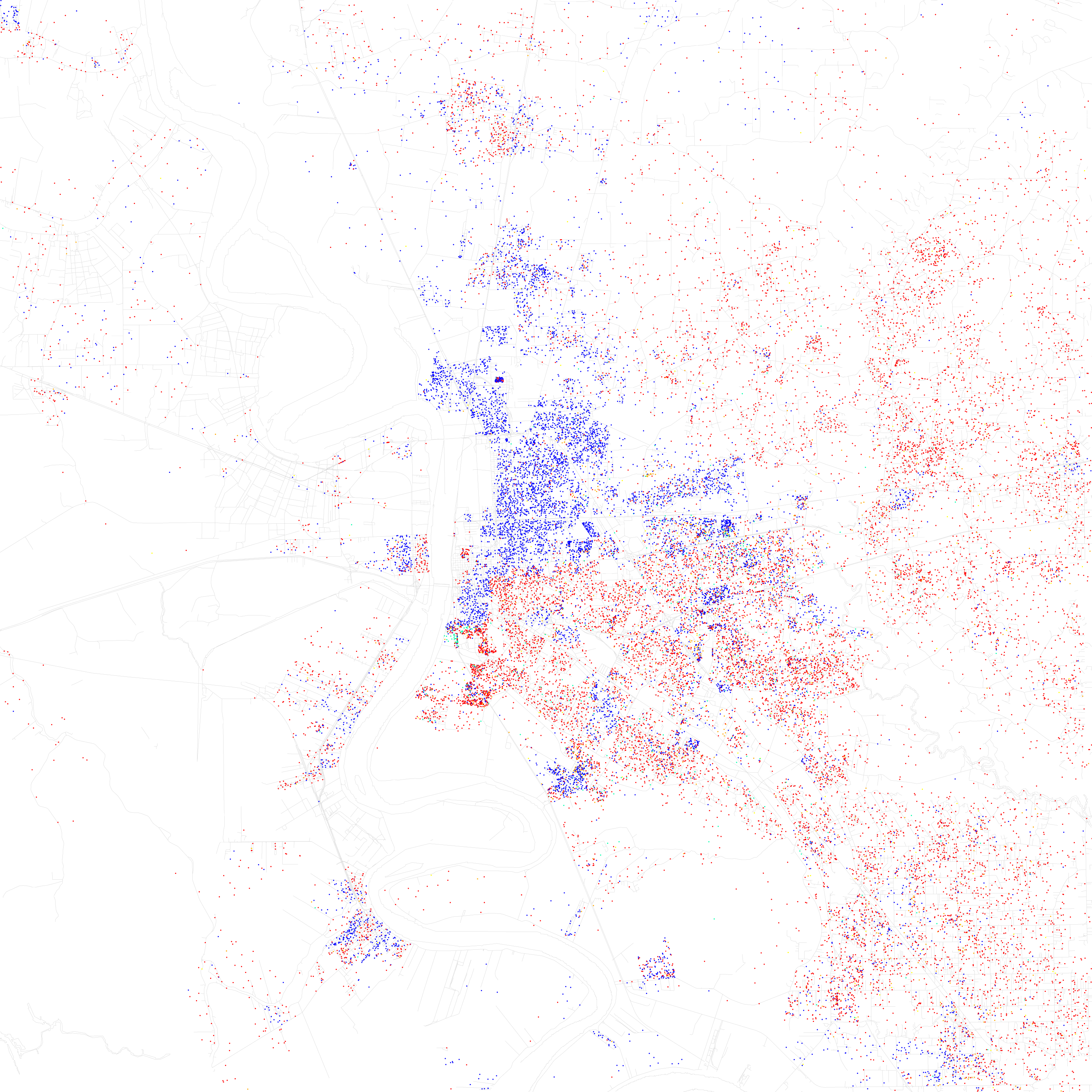 Maps of racial and ethnic divisions in US cities, inspired by Bill Rankin's map of Chicago, updated for Census 2010. Red is White, Blue is Black, Green is Asian, Orange is Hispanic, Yellow is Other, and each dot is 25 residents. Data from Census 2010. Base map © OpenStreetMap, CC-BY-SA